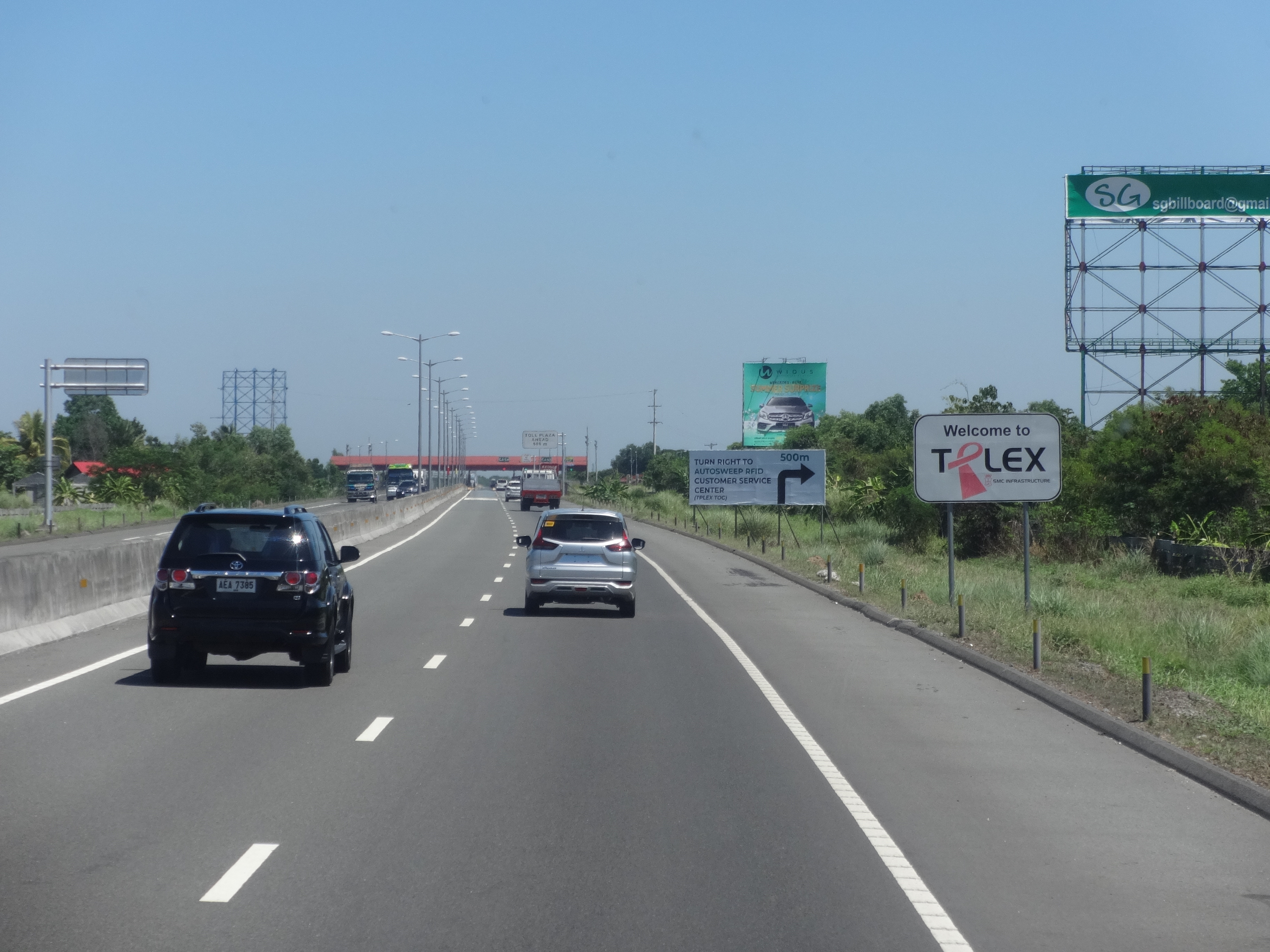 Tarlac-Pangasinan-La Union Expressway in Tarlac City